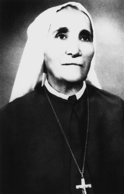 Portrait of Sister Amália of Jesus Flagellated (born Amália Aguirre), seer of Our Lady of Tears apparitions in Campinas, Brazil